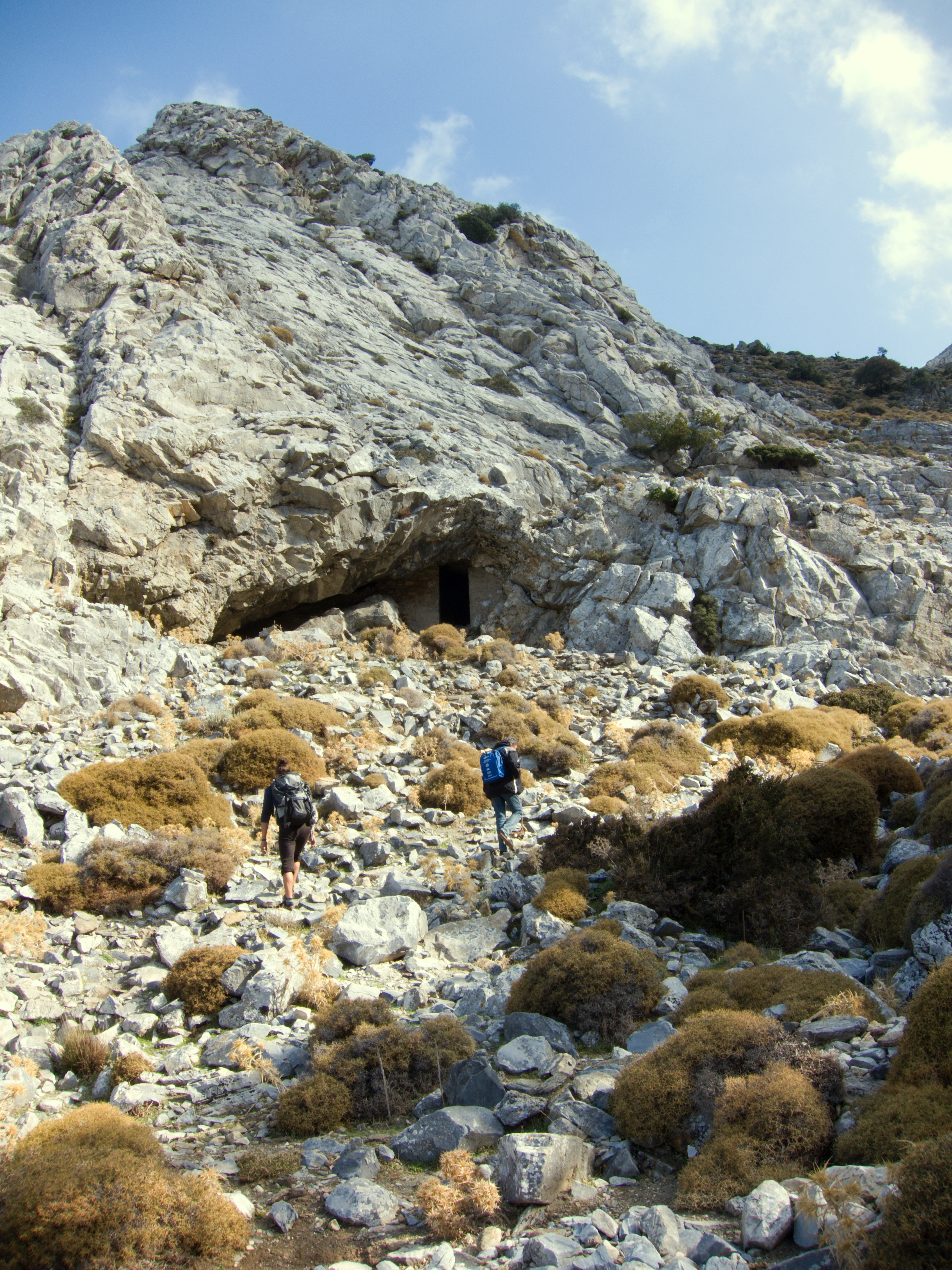 Coming to Cave of Zas from the source Arion. Naxos.